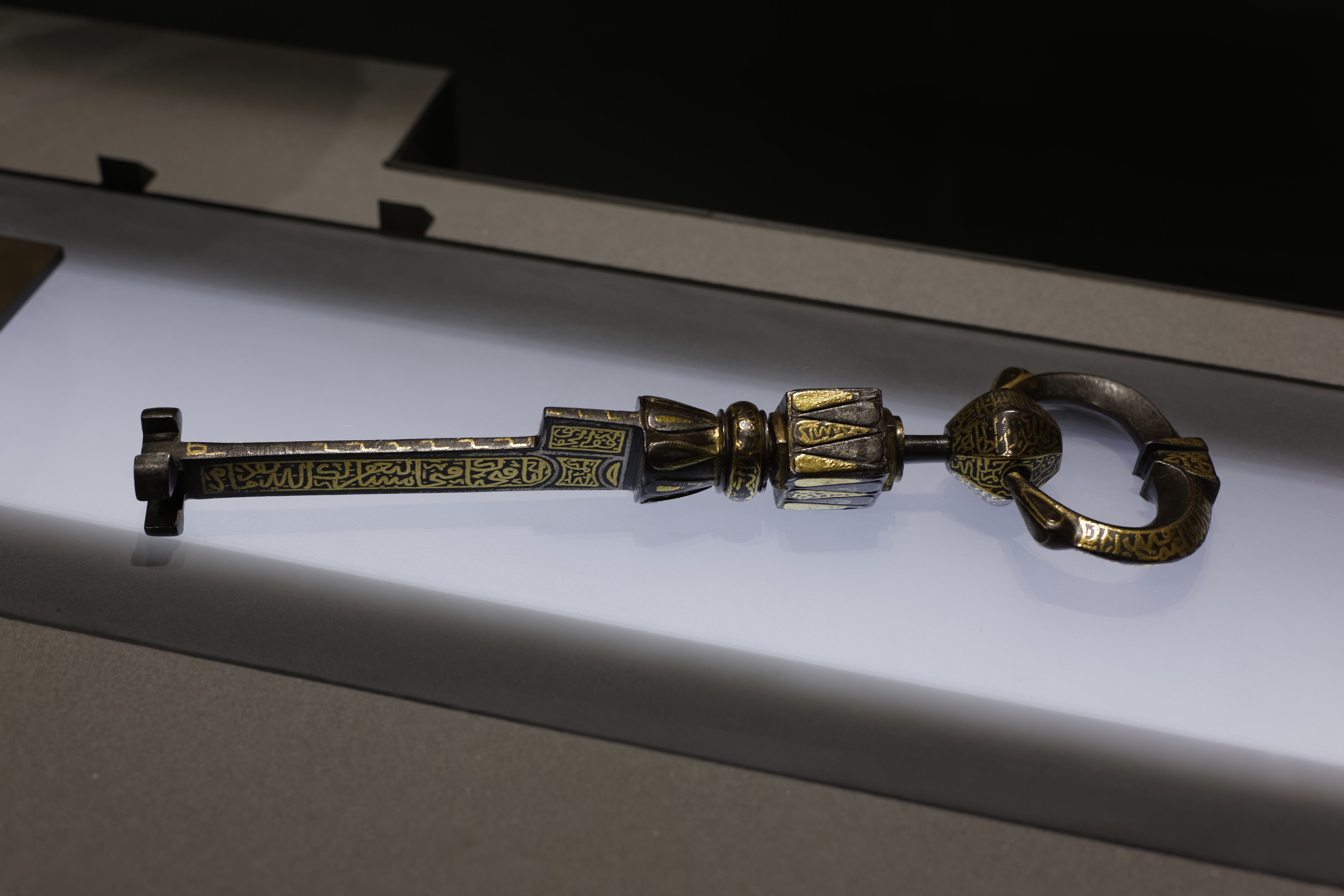 Key bearing the name of Sultan Faraj ibn Barkuk. Iron with gilded and silver inlaid decoration, Egypt, early 15th century.